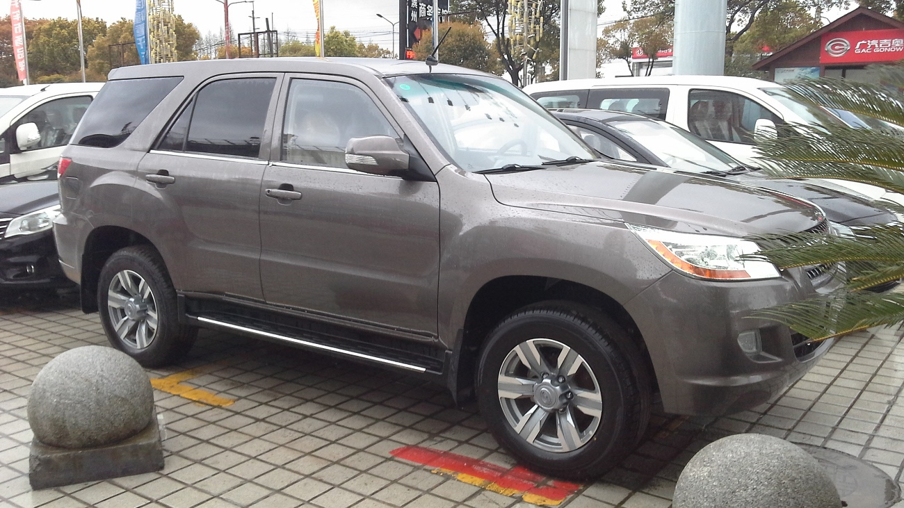 Gonow Aoosed G5 photographed in Shanghai, China.